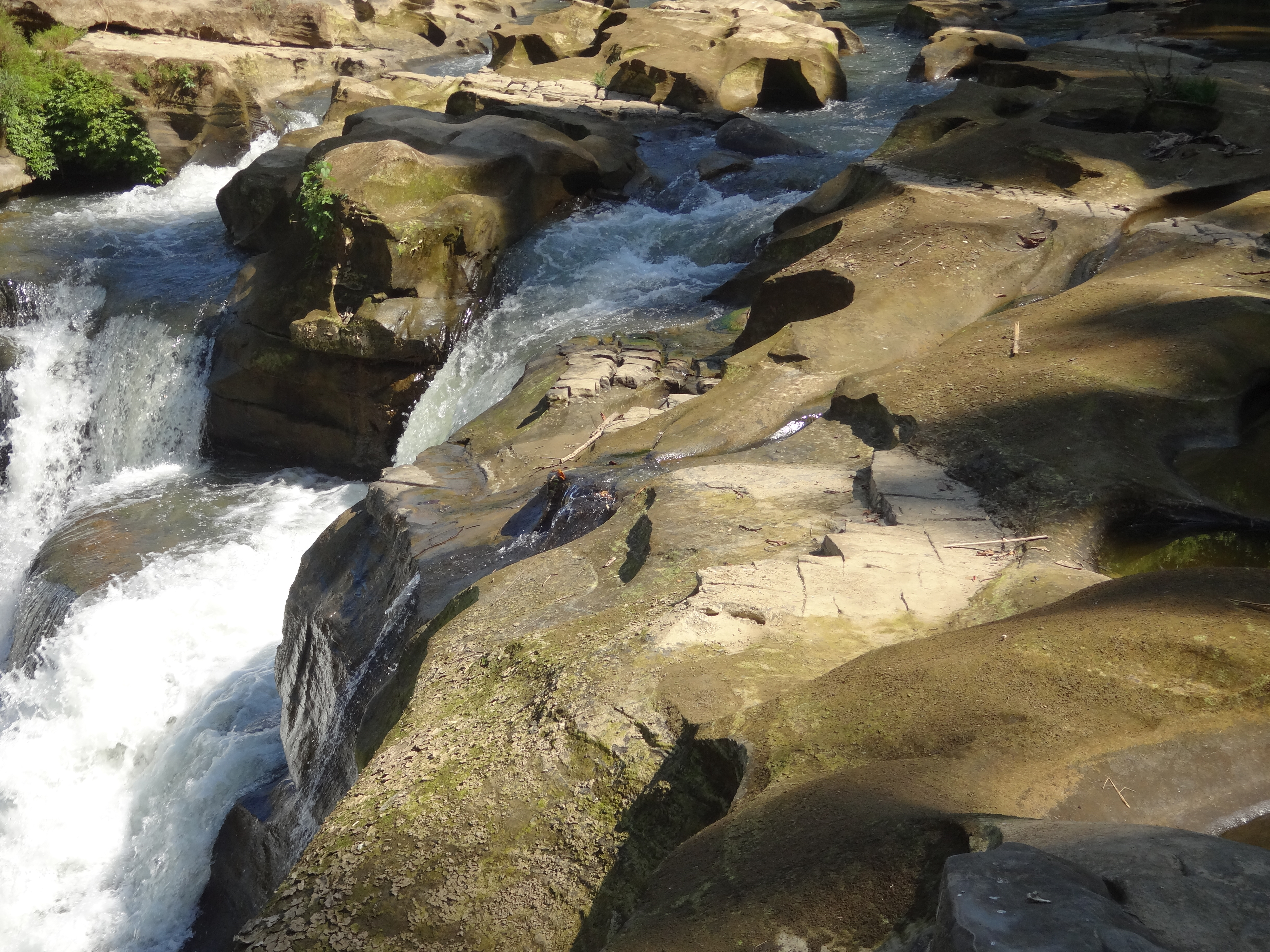 Nafakum watar fal, Bandarban